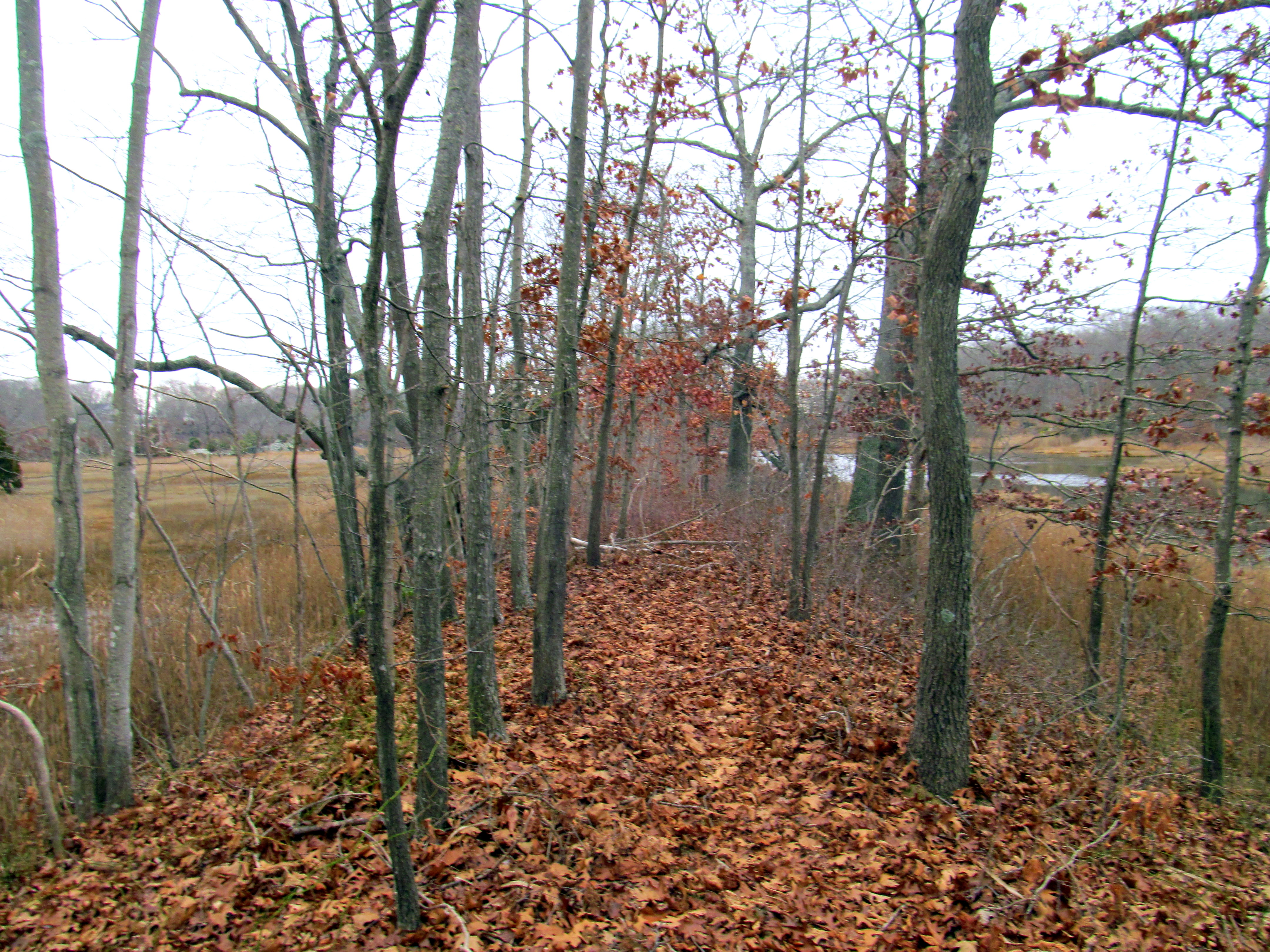 Original Shore Line Railway right-of-way - replaced in 1893 - east of Pine Orchard station, photographed in December 2015